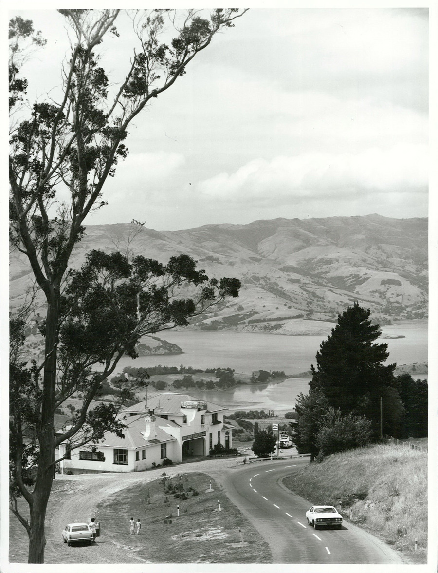 Hilltop Tavern, Banks Peninsula, Canterbury, with Akaroa Harbour in the background. Photographer: J. Waddington January 1973, Canterbury Archives New Zealand Reference: AAQT 6539 W3537 131 / B2398 For further enquiries Material From Archives New Zealand Te Rua Mahara o te Kāwanatanga